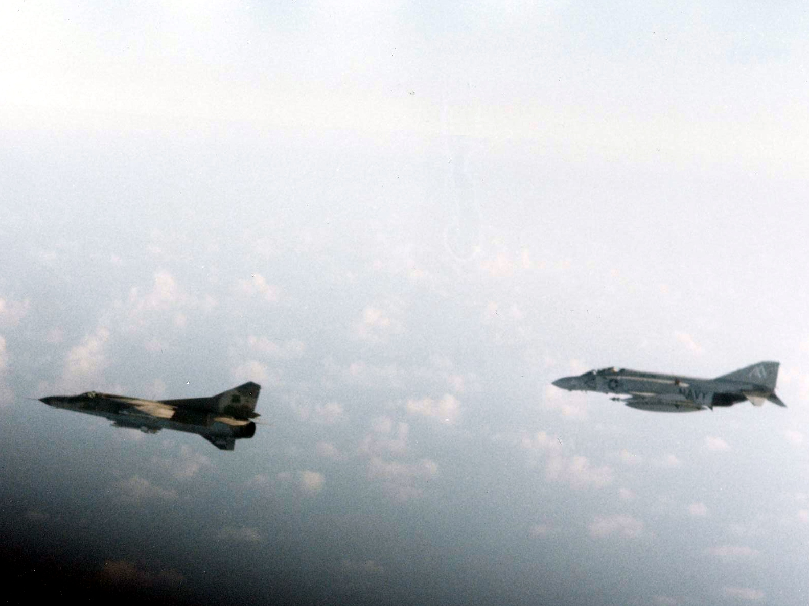 A U.S. Navy McDonnell F-4J Phantom II of Fighter Squadron VF-74 Be-Devilers escorting a Libyan Mikoyan-Gurevich MiG-23 over Gulf of Sidra in August 1981. VF-74 was assigned to Carrier Air Wing 17 (CVW-17) aboard the aircraft carrier USS Forrestal (CV-59) for a deployment to the Mediterranean Sea from 2 March to 15 September 1981. On 19 August 1981, two Libyan Sukhoi Su-22 attack aircraft fired upon and were subsequently shot down by two U.S. Navy Grumman F-14A Tomcats of VF-41, assigned to CVW-8 aboard the USS Nimitz (CVN-68).